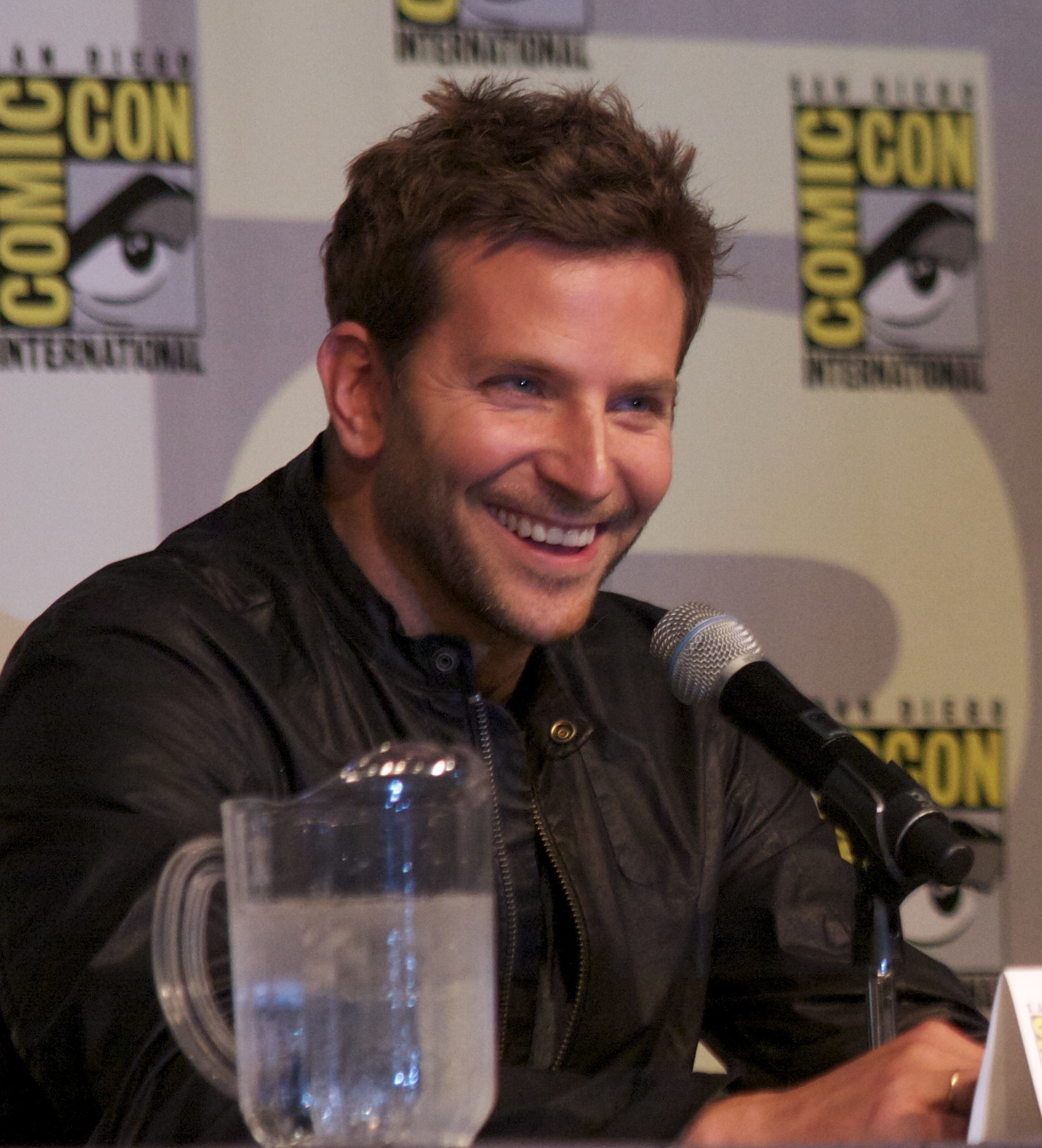 Bradley Cooper and Alex Proyas speaking during the Paradise Lost segment of the Legendary Pictures panel at the 2011 Comic-Con International